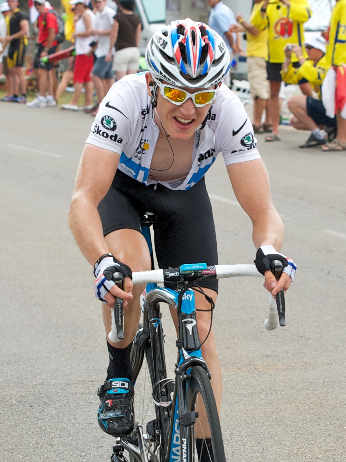 Thomas had a great run in the white jersey, but gave it up to Andy Schleck after this stage.